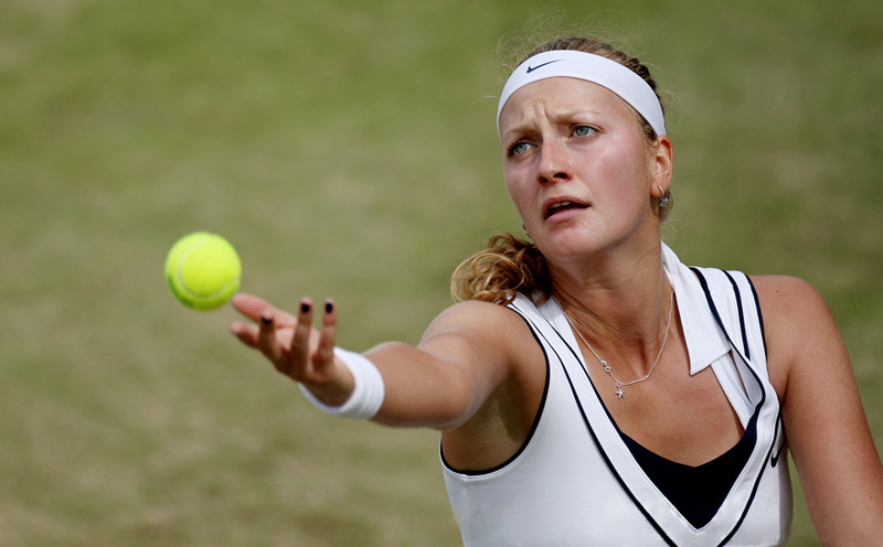 Czech tennis player Petra Kvitova in the final match at the 2011 Wimbledon against Maria Sharapova